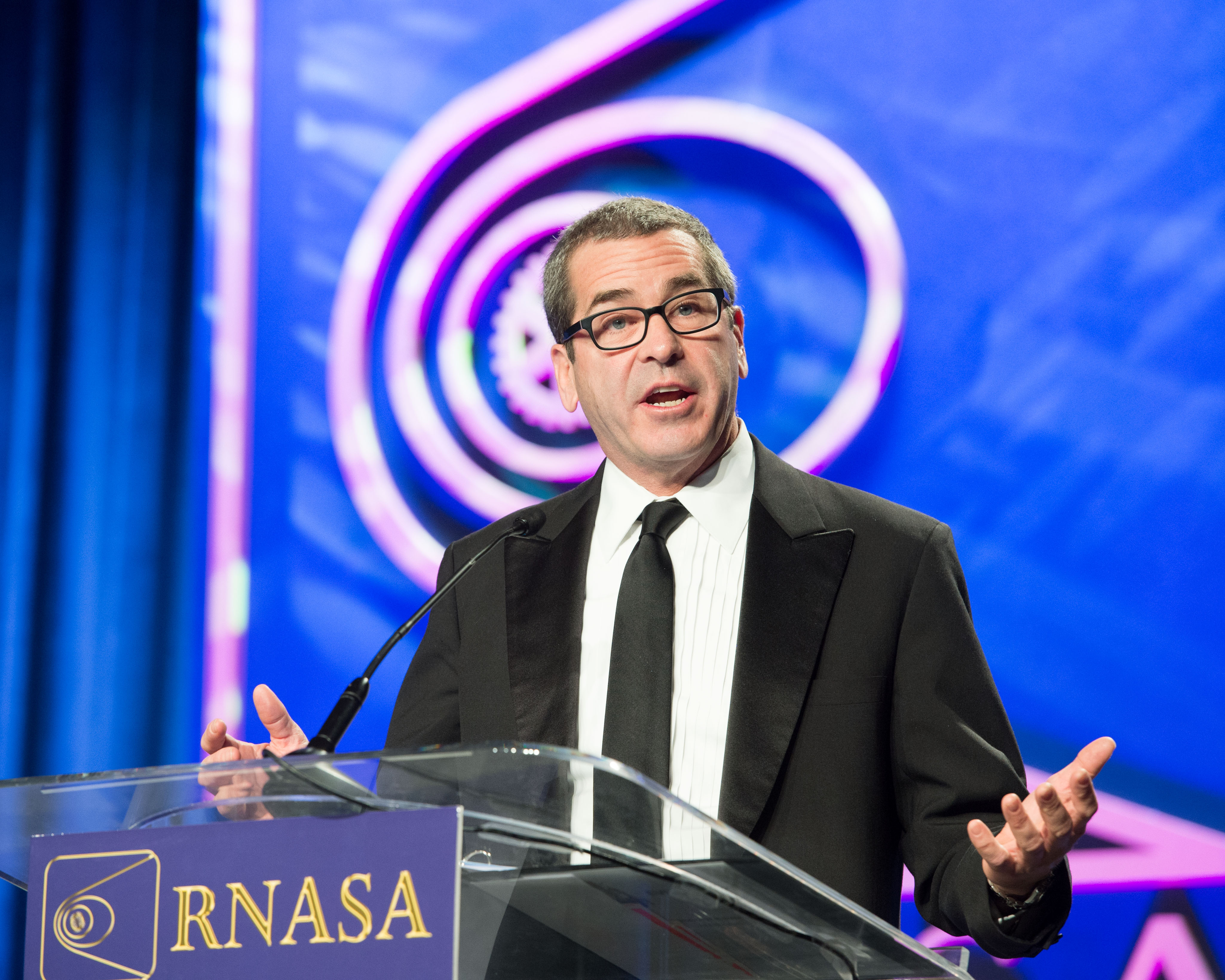 Miles O'Brien (journalist) was Space Communicator Award presenter at the Rotary National Award for Space Achievement (RNASA) Foundation Annual Banquet on April 26, 2013 at the Houston Hyatt Regency. NASA photo #jsce063323.